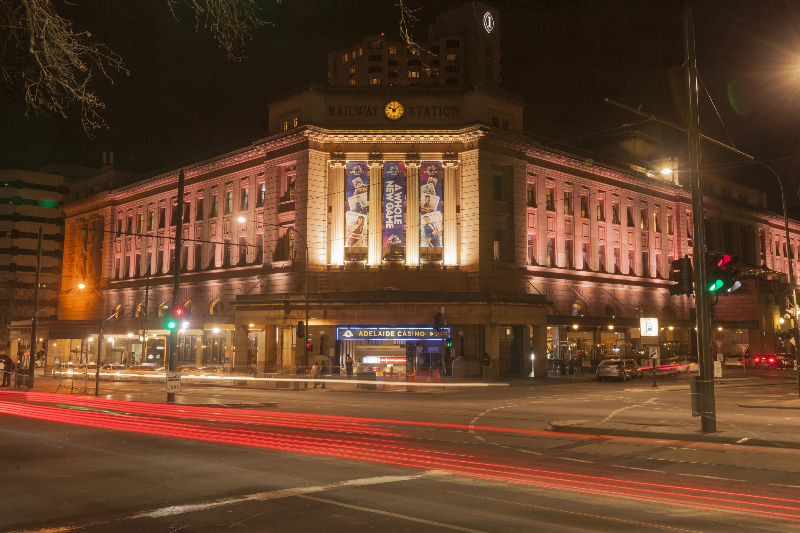 The Adelaide Railway Station at night from North Terrace.